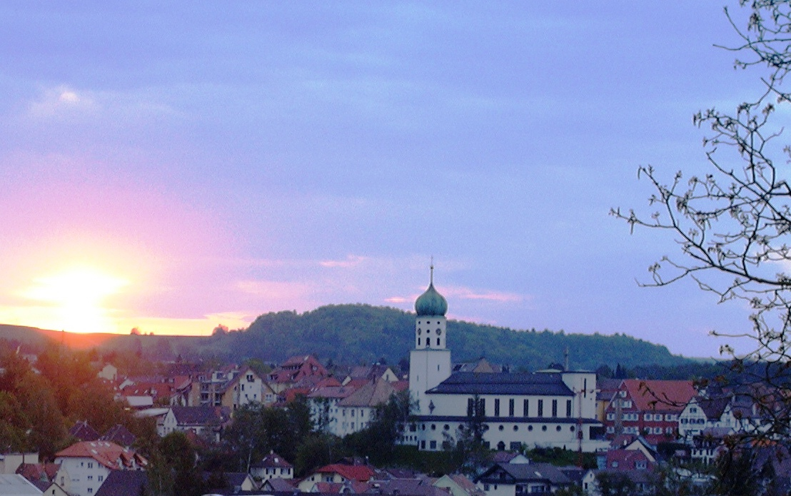 Sunrise at Stockach looking from Nellenburg.